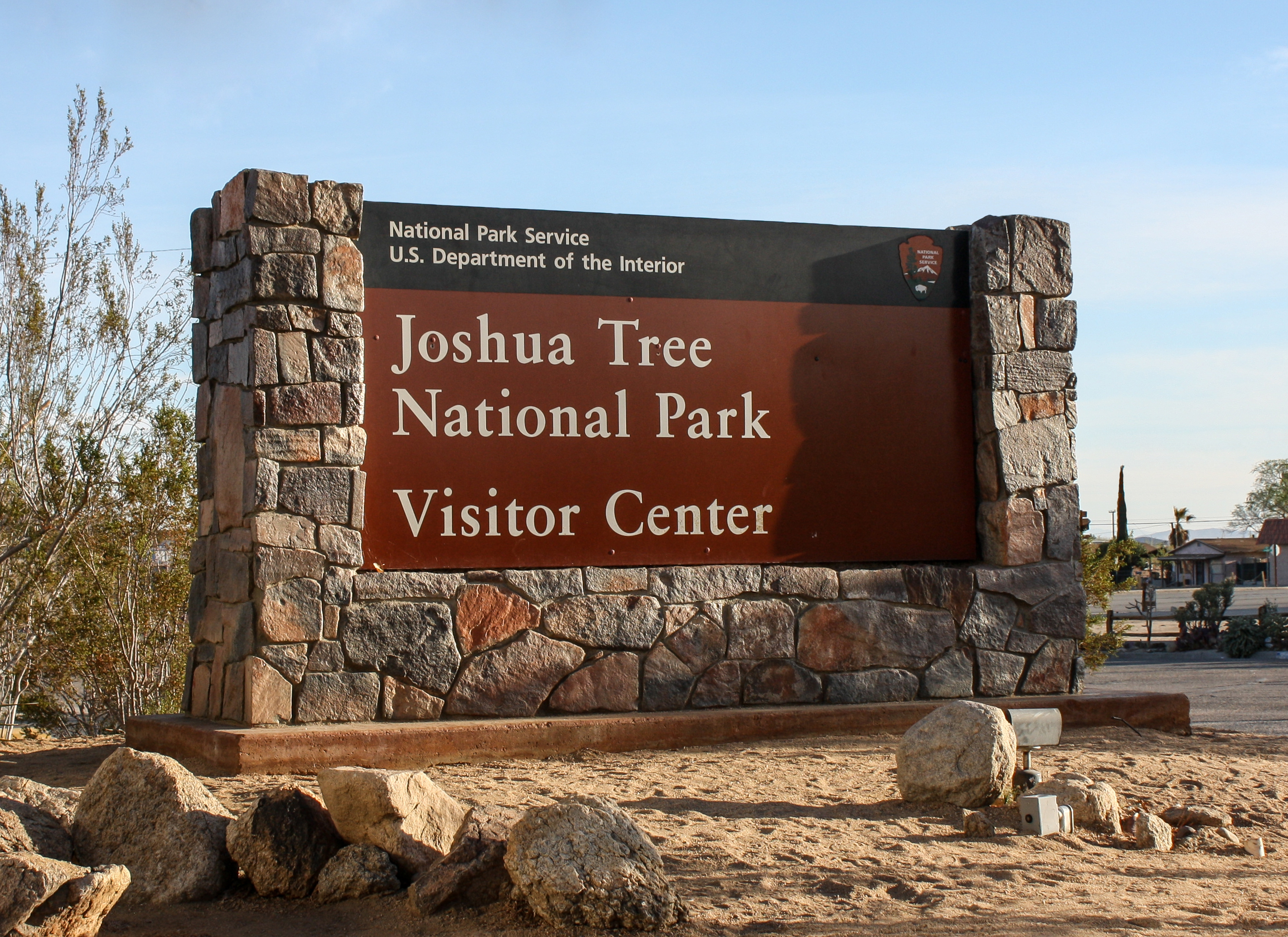 Plaque of Joshua Tree National Park Visitor Center, California